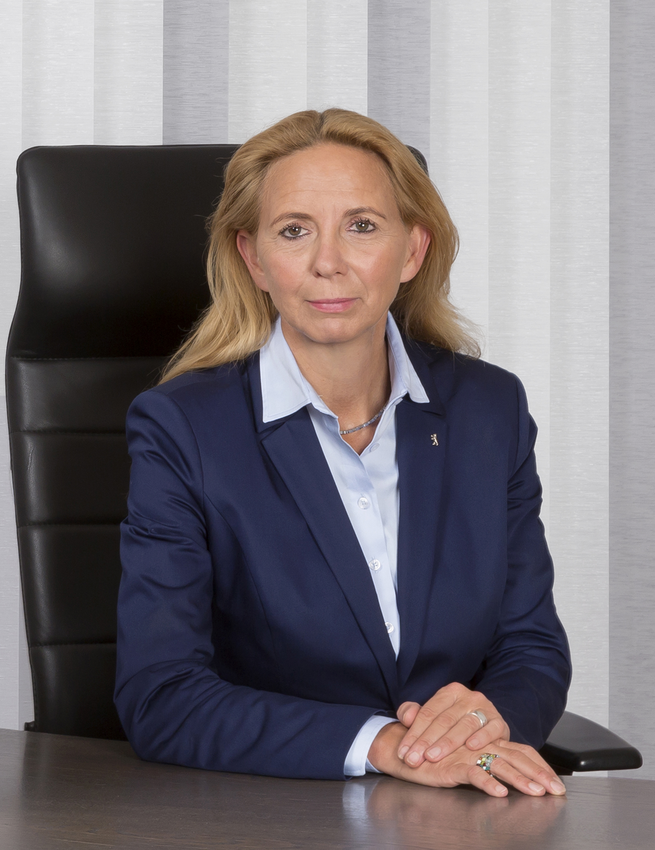 Dr. Barbara Slowik